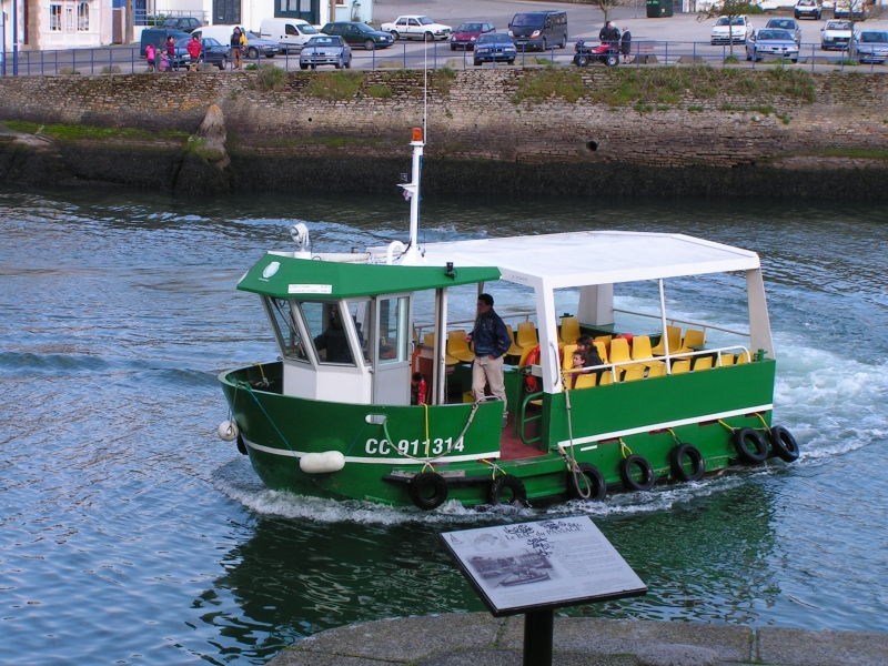 Ferryboat at the city of Concarneau "le Gouverneur" Brittany, France.